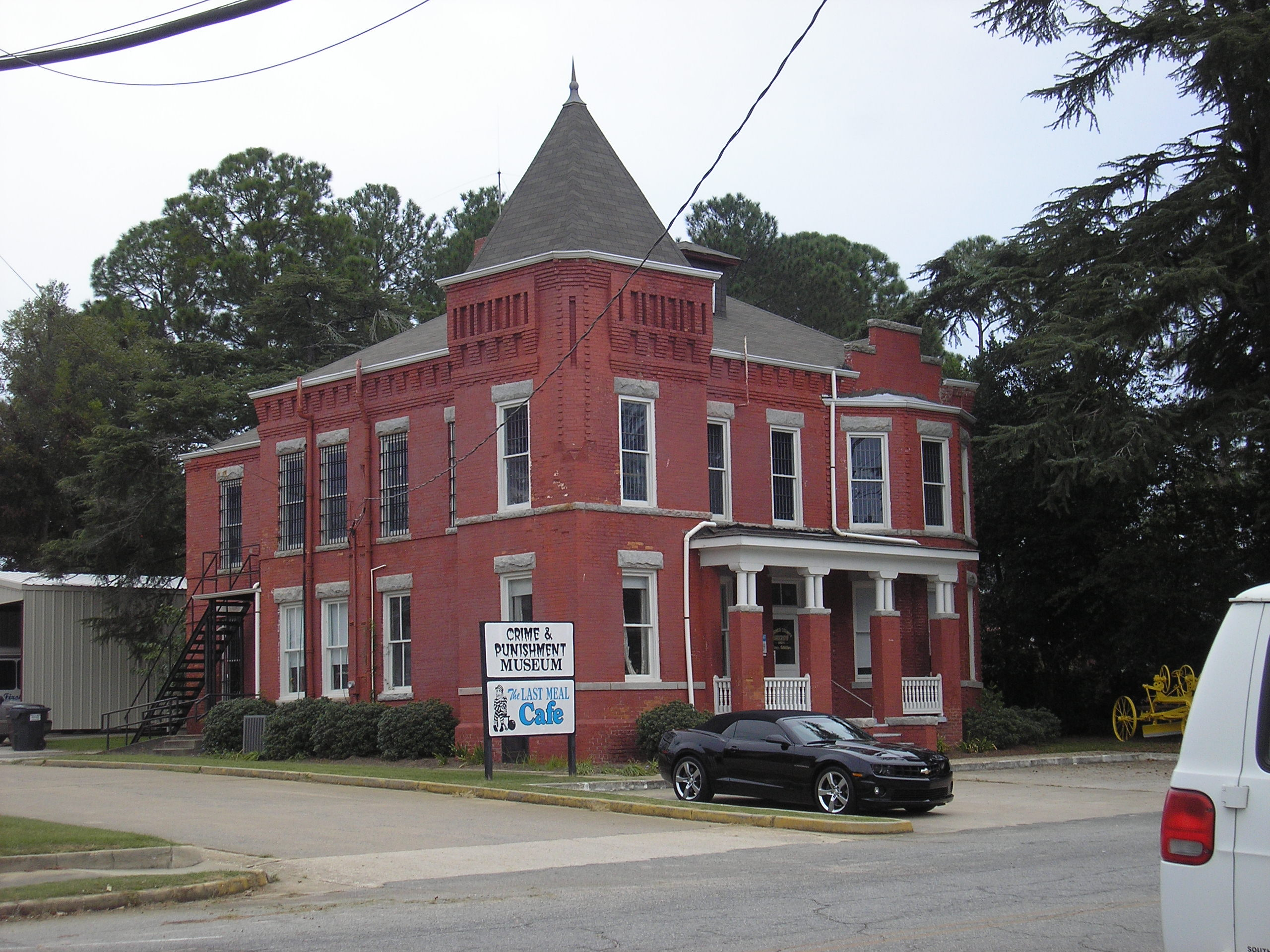 A Registered Historic Site in Ashburn, GA that now houses the Museum of Crime and Punishment and the Last Chance Cafe.